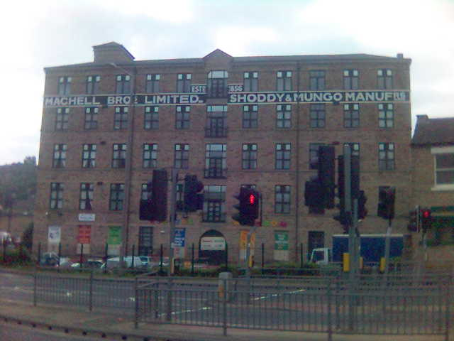 Clock tower on Rapperswil castle.